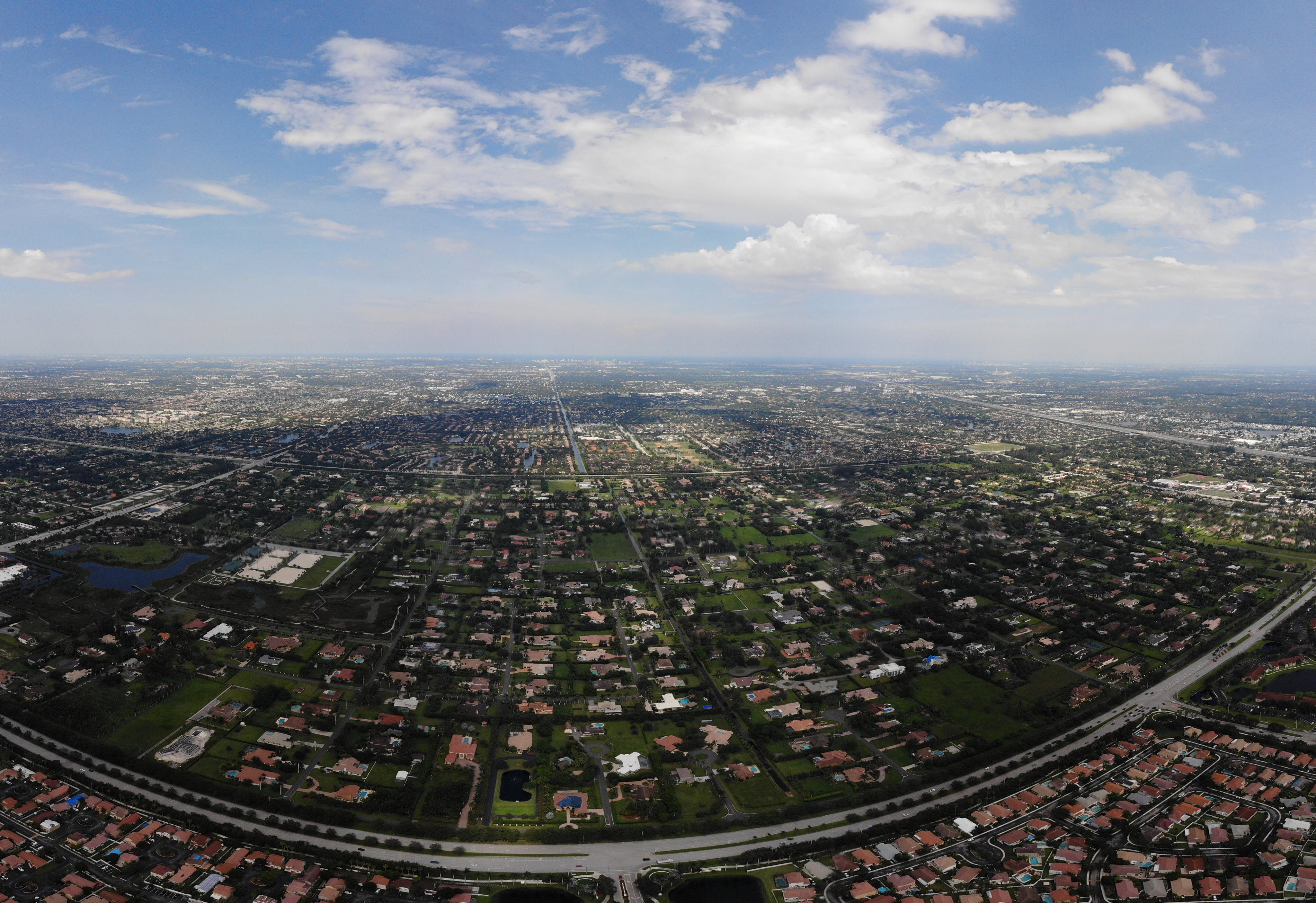 An aerial panoramic shot of Plantation, Florida and beyond. (The camera is facing Eastbound from Sunrise, Florida.) Note: The first road on the bottom is Flamingo Road which divides the two cities of Plantation and Sunrise, Florida.